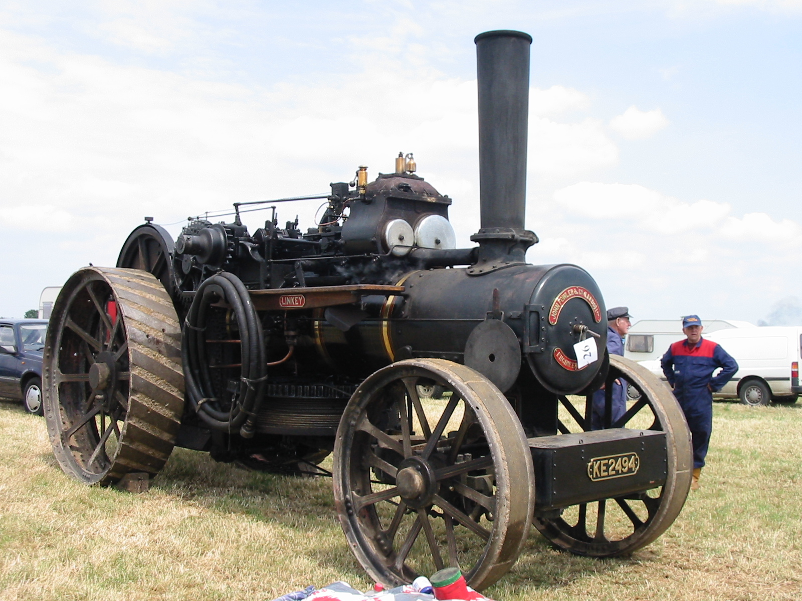 Image of a John Fowler traction engine (ploughing engine). Taken June 2006